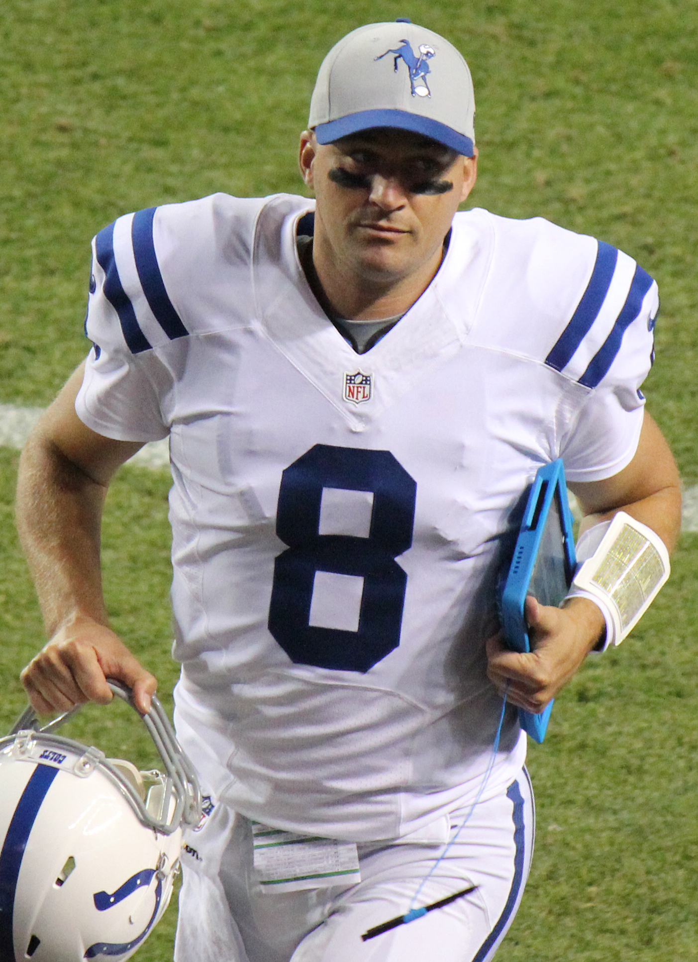 Matt Hasselbeck, a player on the National Football League.